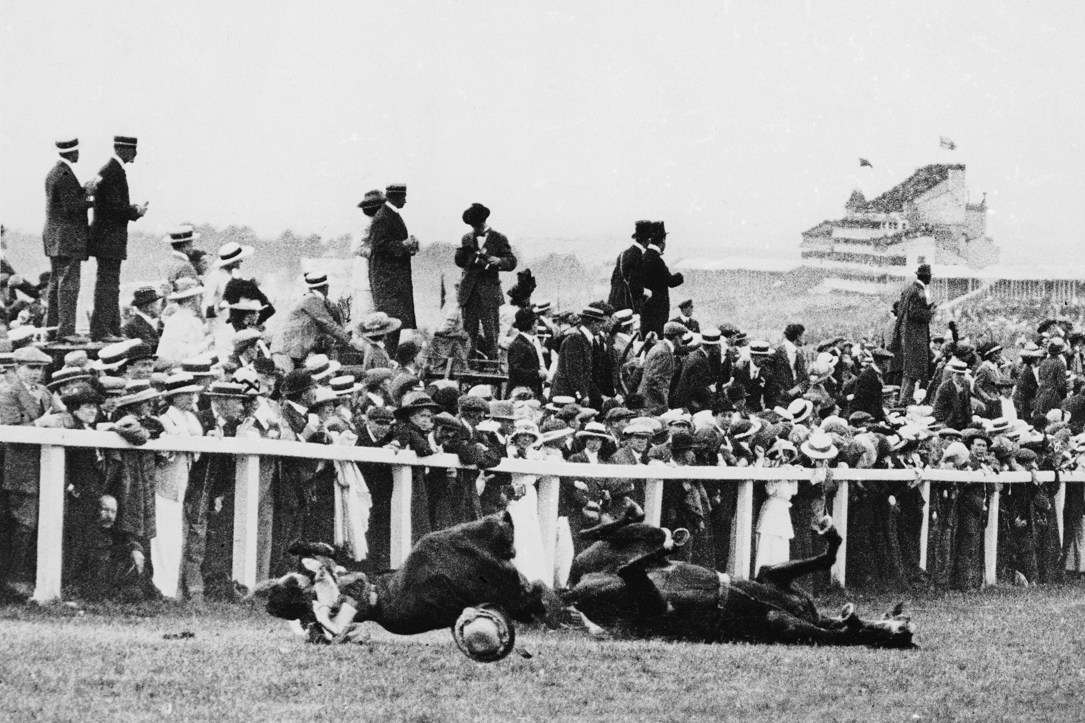 Emily Davison is struck by King George's horse, Anmer, and knocked unconscious. She died four days later from a fractured skull.